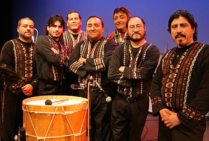 Photo study of the formation of Arak Pacha, January 2011.